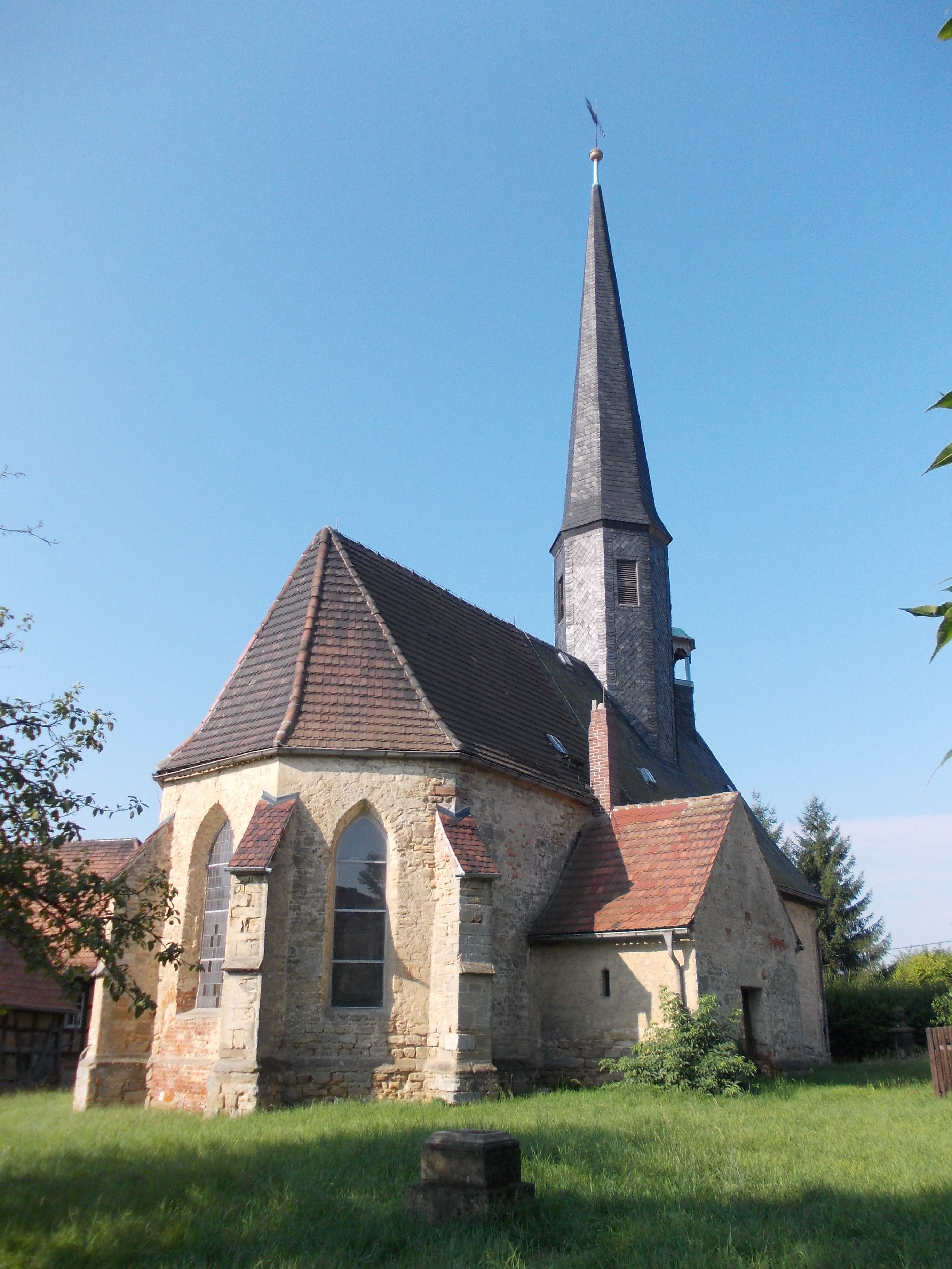 Mehna church (district of Altenburger Land, Thuringia)